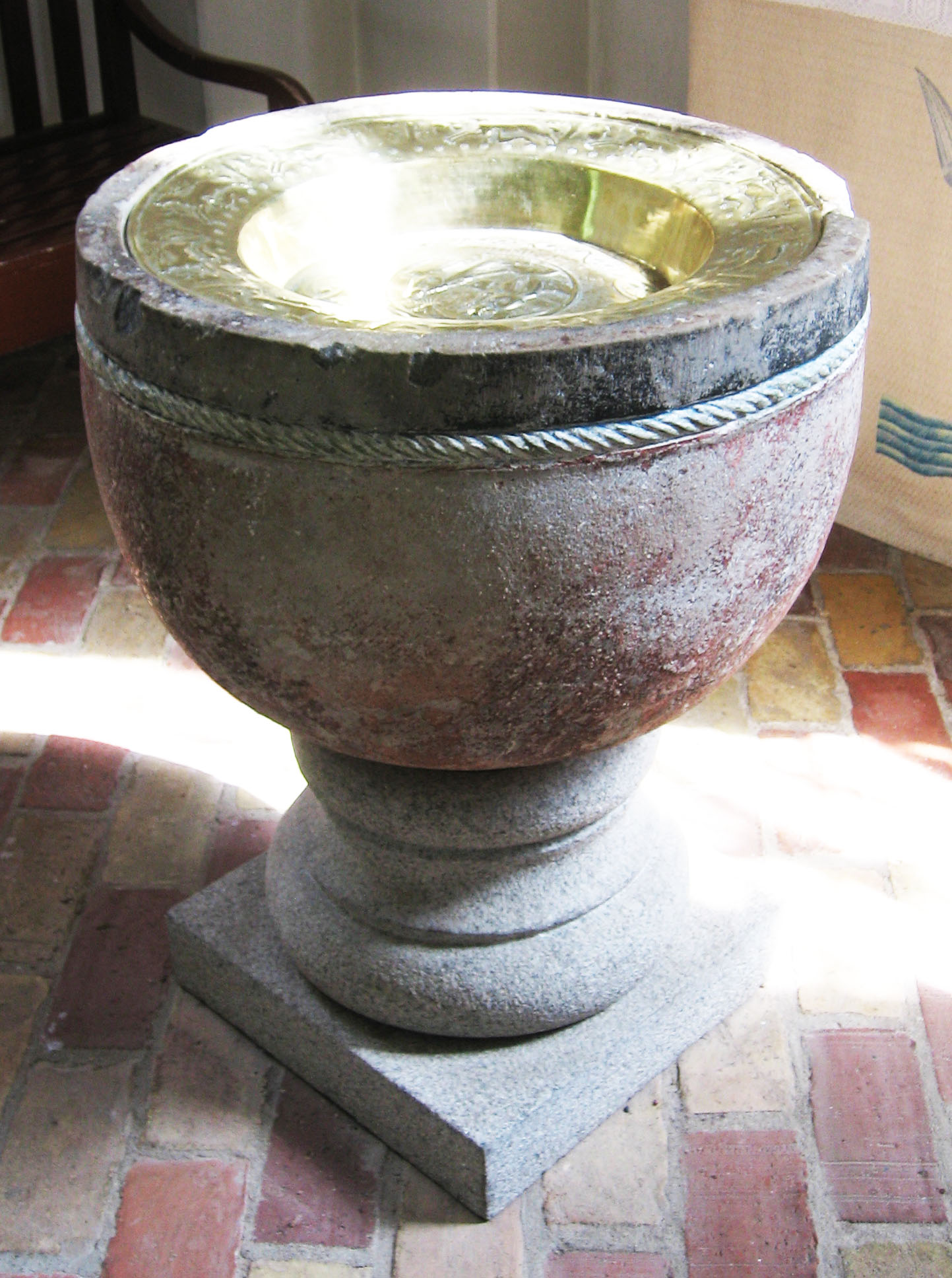 Baptismal font from Uppåkra kyrka, Sweden. Photo by the uploader.